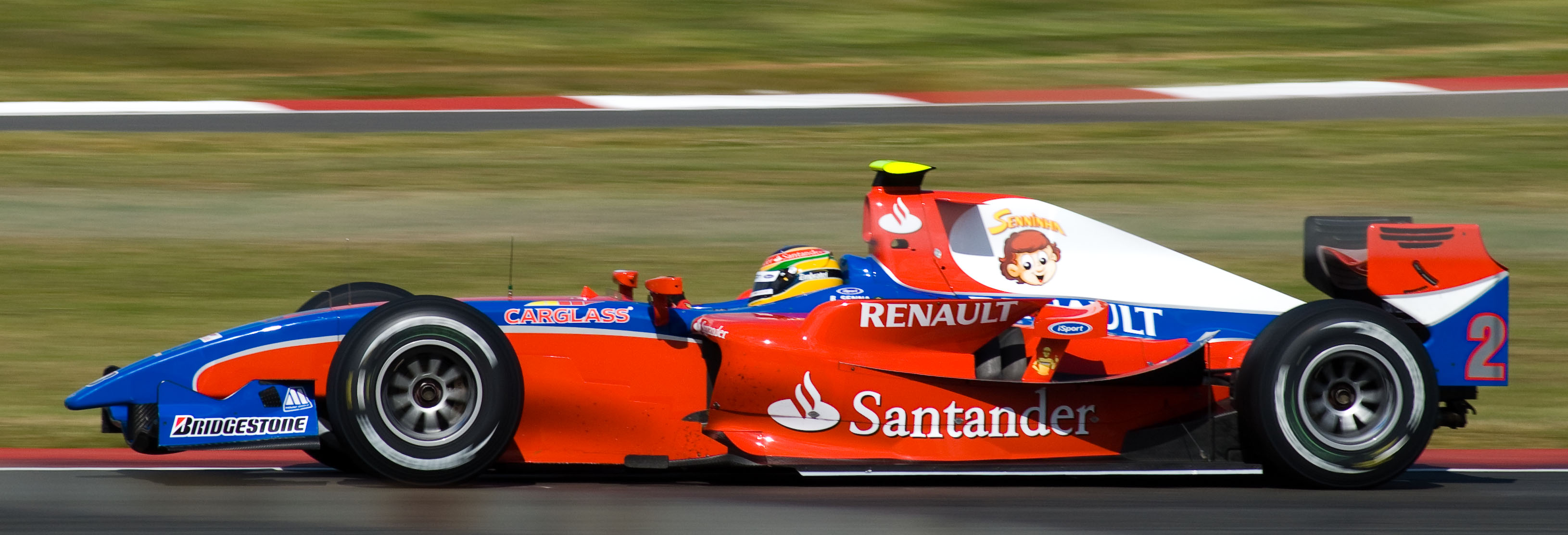 Bruno Senna driving for iSport International at the Silverstone round of the 2008 GP2 Series season.